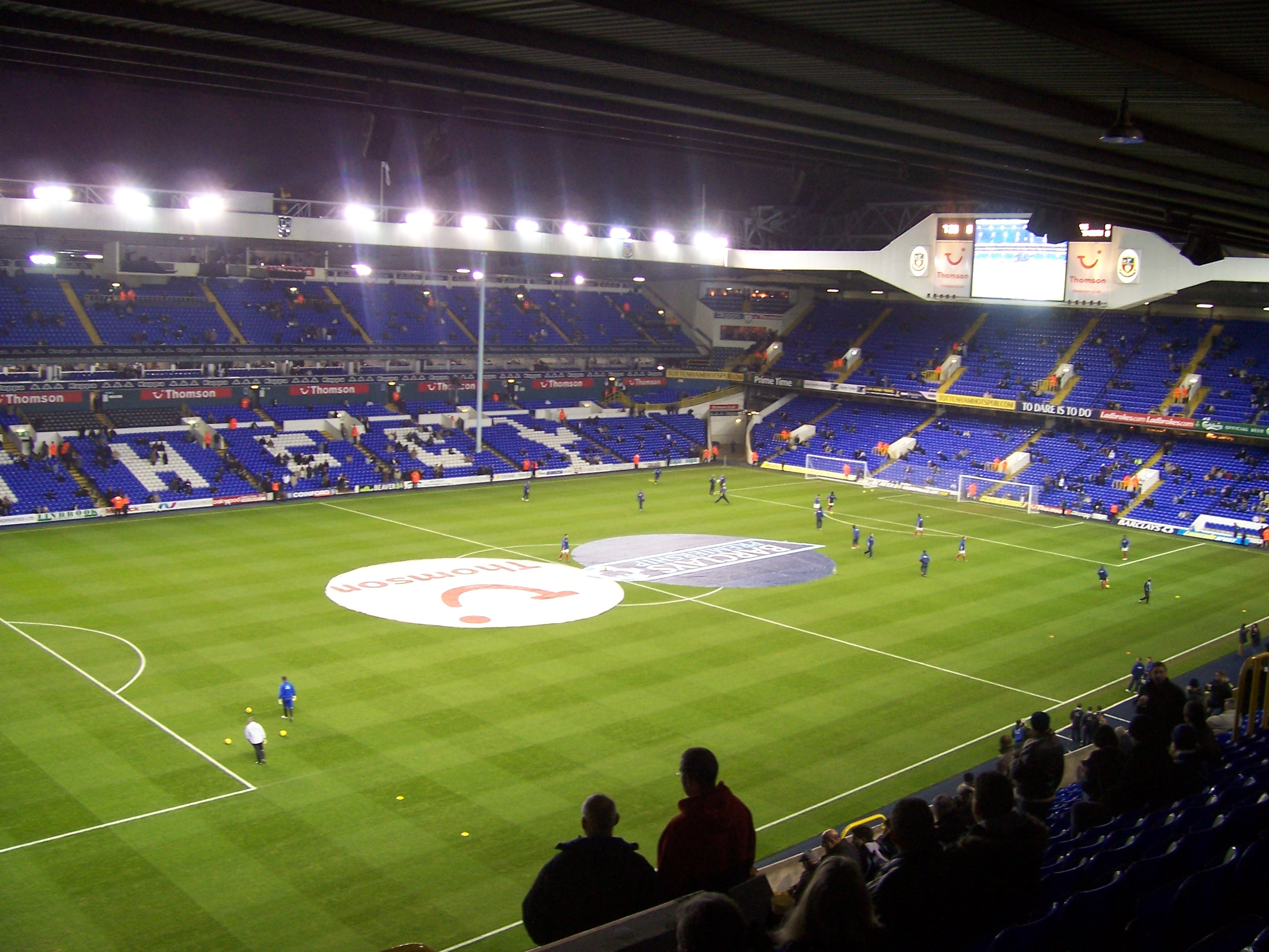 White Hart Lane Stadium 2005 Tottenham vs. Portsmouth